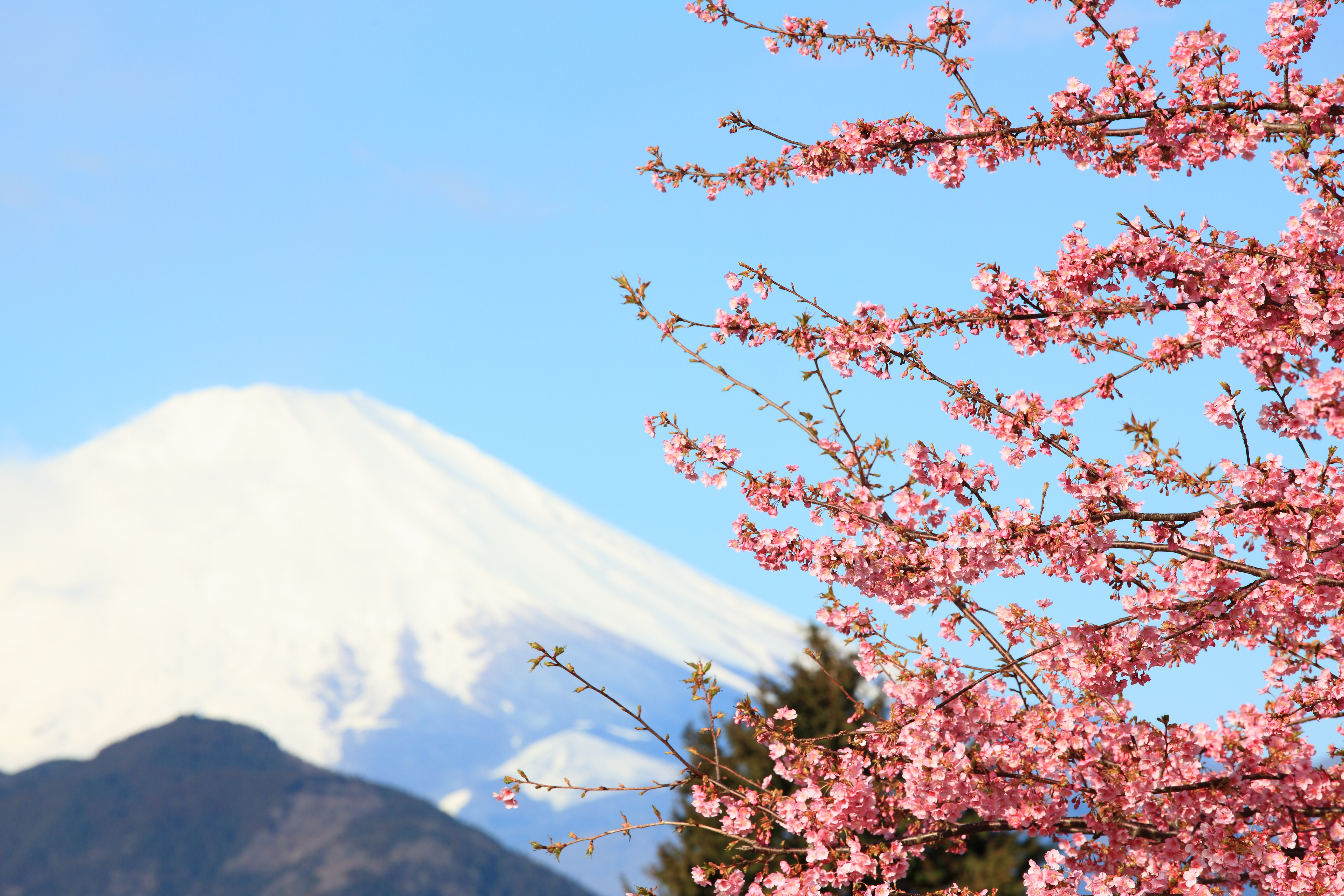 Nishi-Hirabatake Park, Matsuda-cho(town) Kanagawa-ken(Prefecture), Japan Mount Fuji―Science Helps Us Understand Nature 神奈川県松田町 西平畑公園(にしひらばたけこうえん)